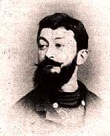 Novellist and symbolist poet John-Antoine Nau (1860-1918). Although an American citizen, born in San Francisco, Nau was of French parentage and wrote in French.